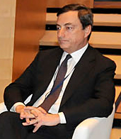 EPP Congress Bonn: Podium discussion with Rodrigo Rato, Paul Volcker, Peter Jungen, Mario Draghiand Jyrki Katainen for Janez Janša and Emanuela Farris in the background, intro by Wilfried Martens.